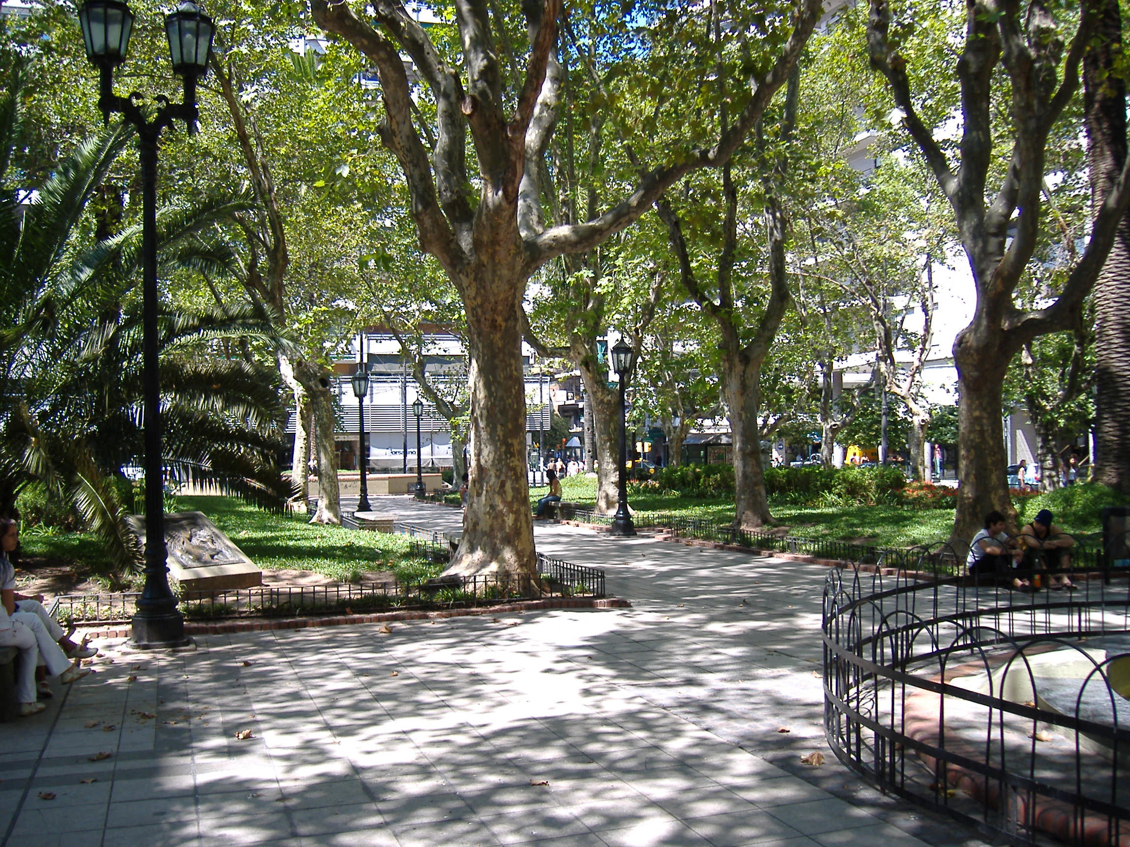 Plaza Pringles in Rosario, Argentina. This urban square takes up half a block between Presidente Roca, Córdoba and Paraguay St. and the small Pasaje Juan Álvarez, in downtown Rosario. This picture was taken by Pablo D. Flores on 7 March 2006.